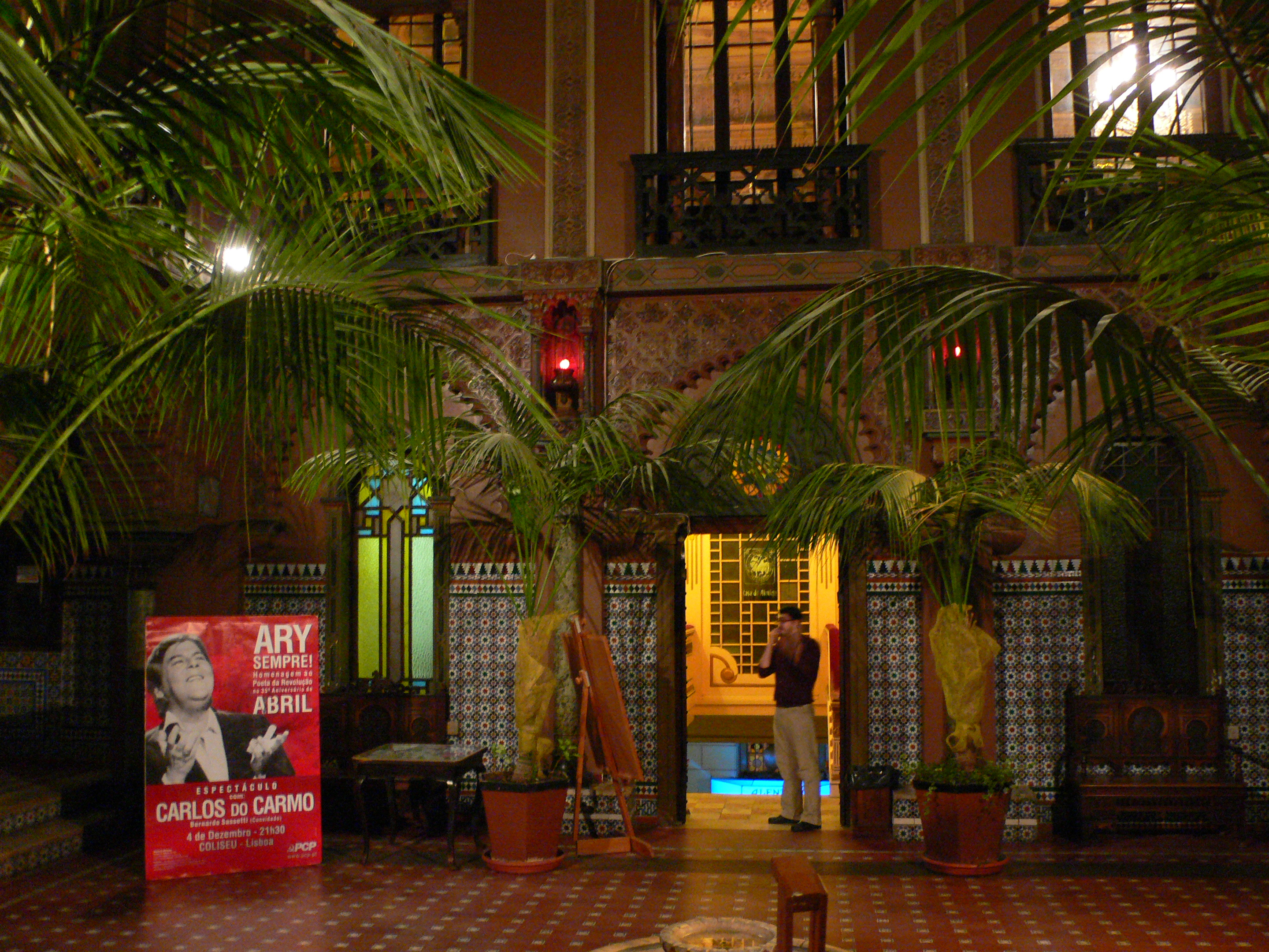 Internal courtyard at Casa do Alentejo, Rua das Portas de Santo Antao 58, Lisbon, Portugal.